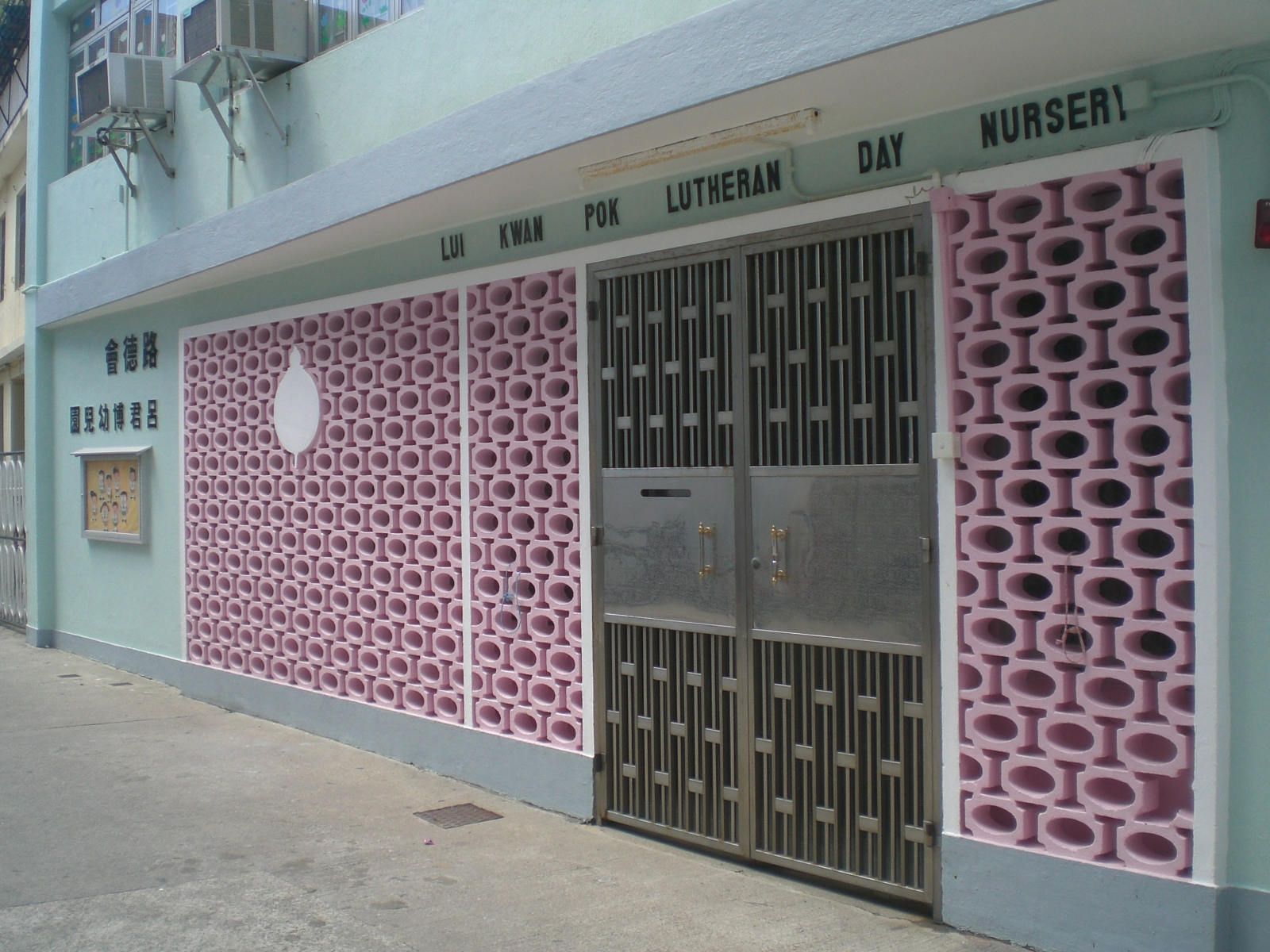 路德會在香港zh:長洲的服務